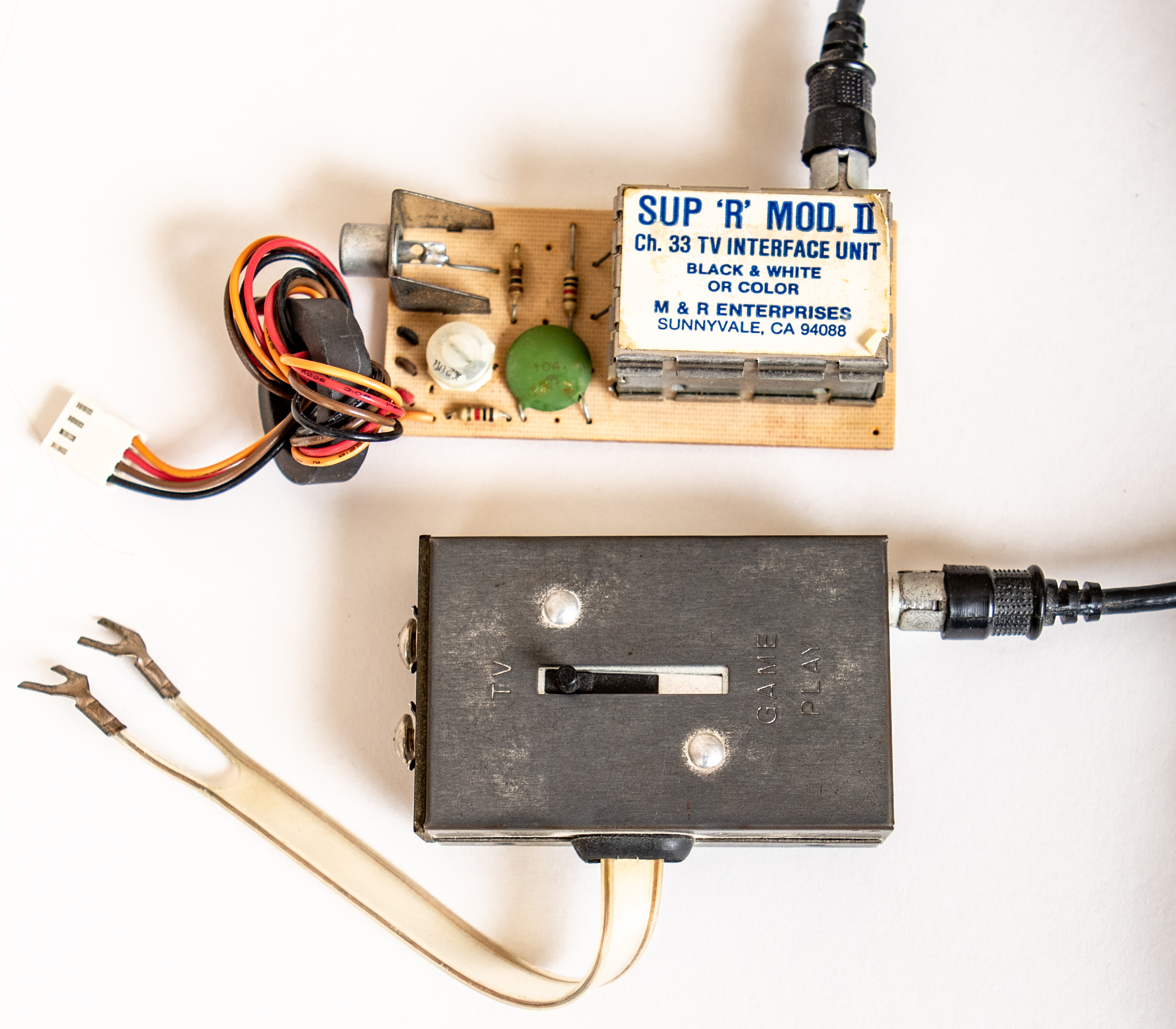 This is an RF modulator designed for use with Apple II computers in the late 1970s.